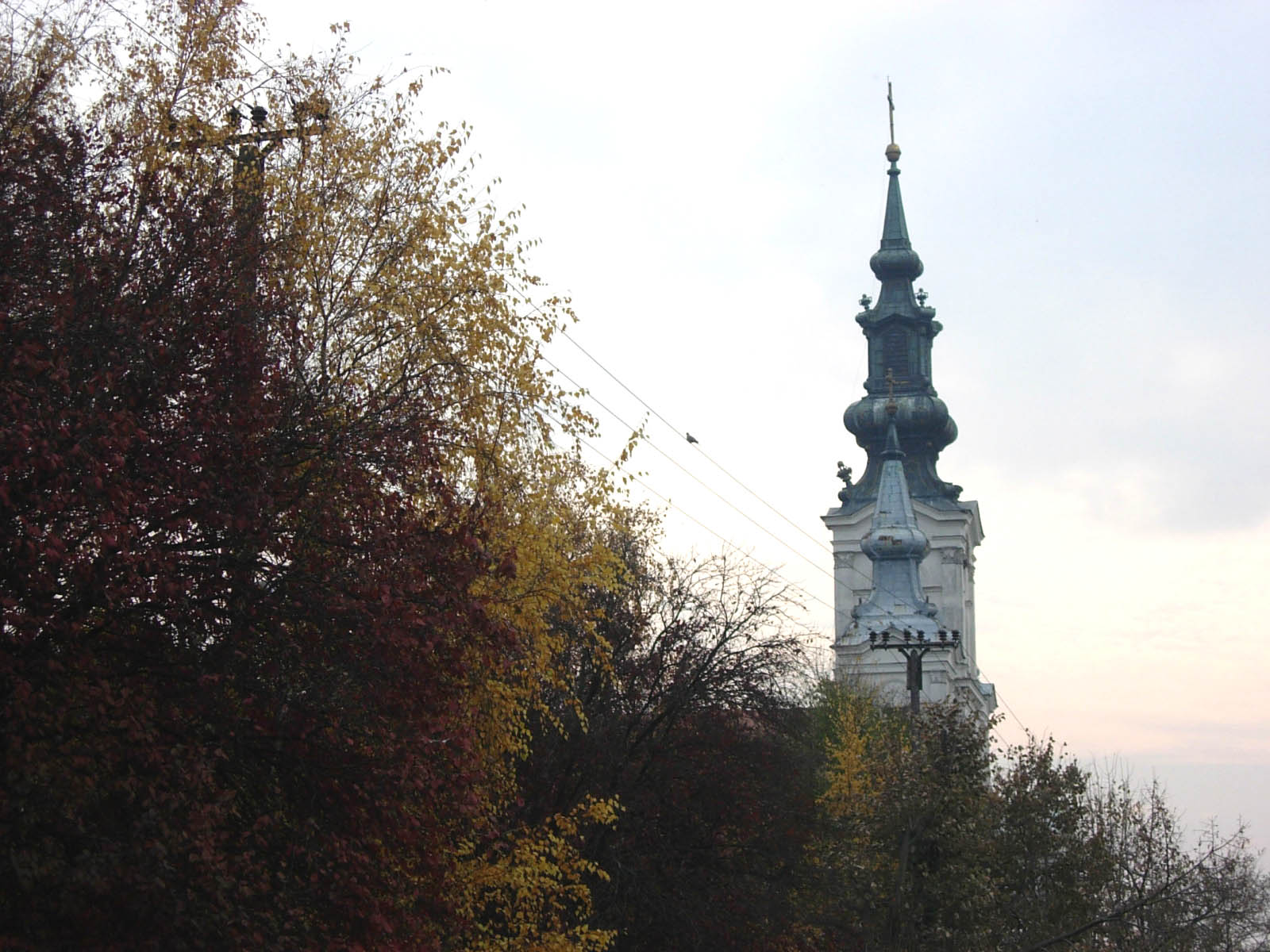 The Orthodox church in Sivac.